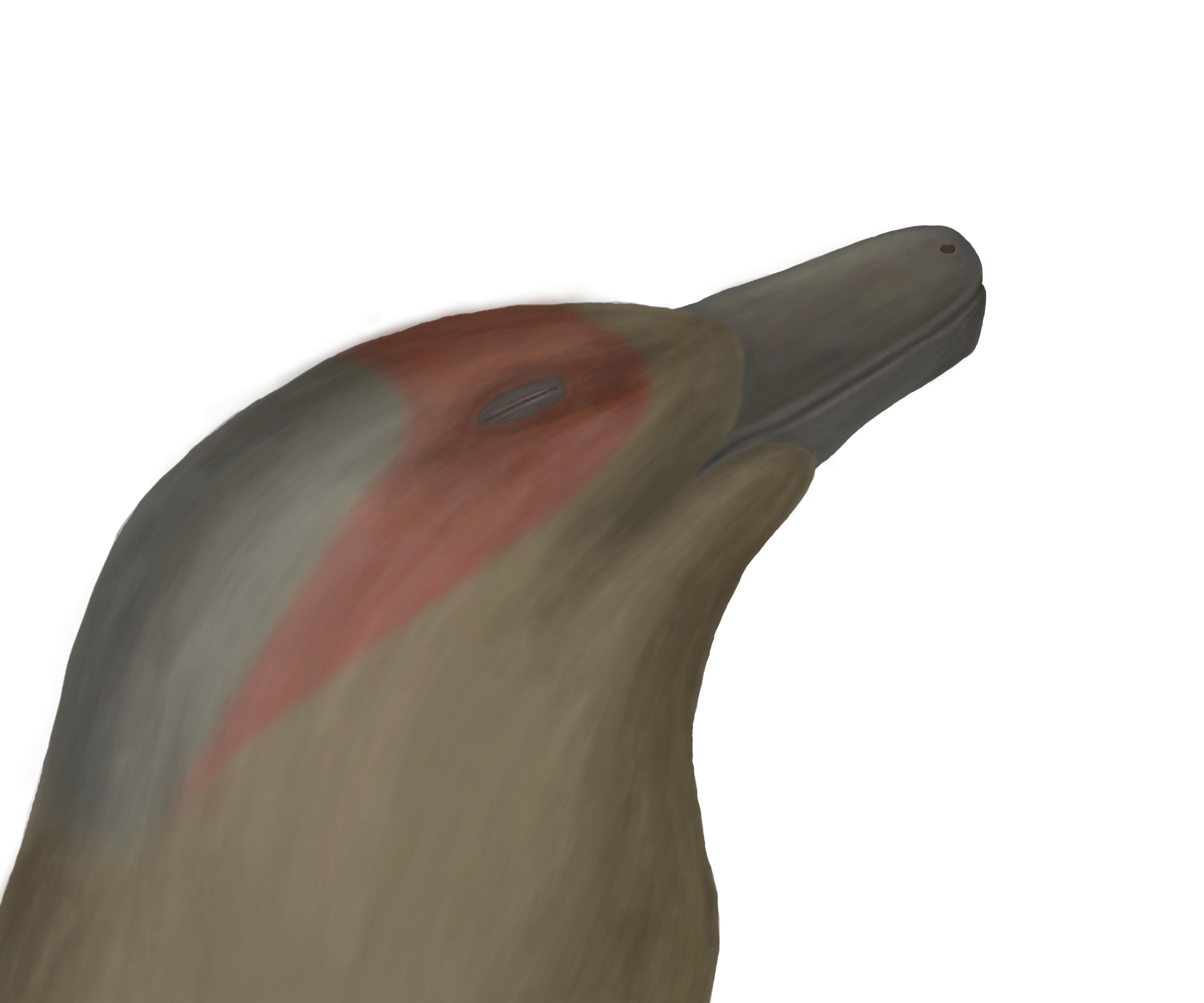 A bust of the Cretaceous Uzbekistani dromaeosaurid, Itemirus.